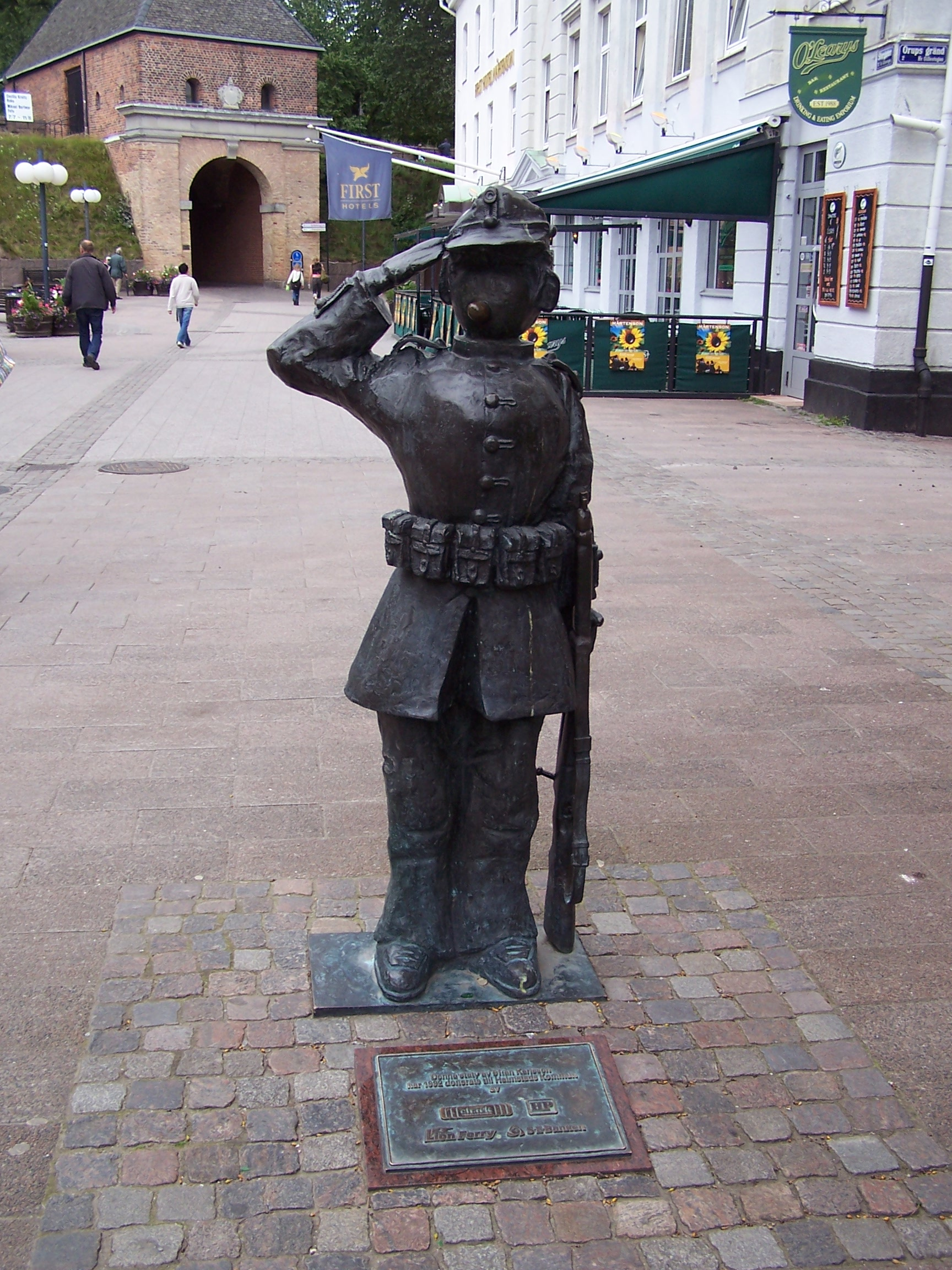 Statue of the Swedish comic strip person "91:an Karlsson" in Halmstad